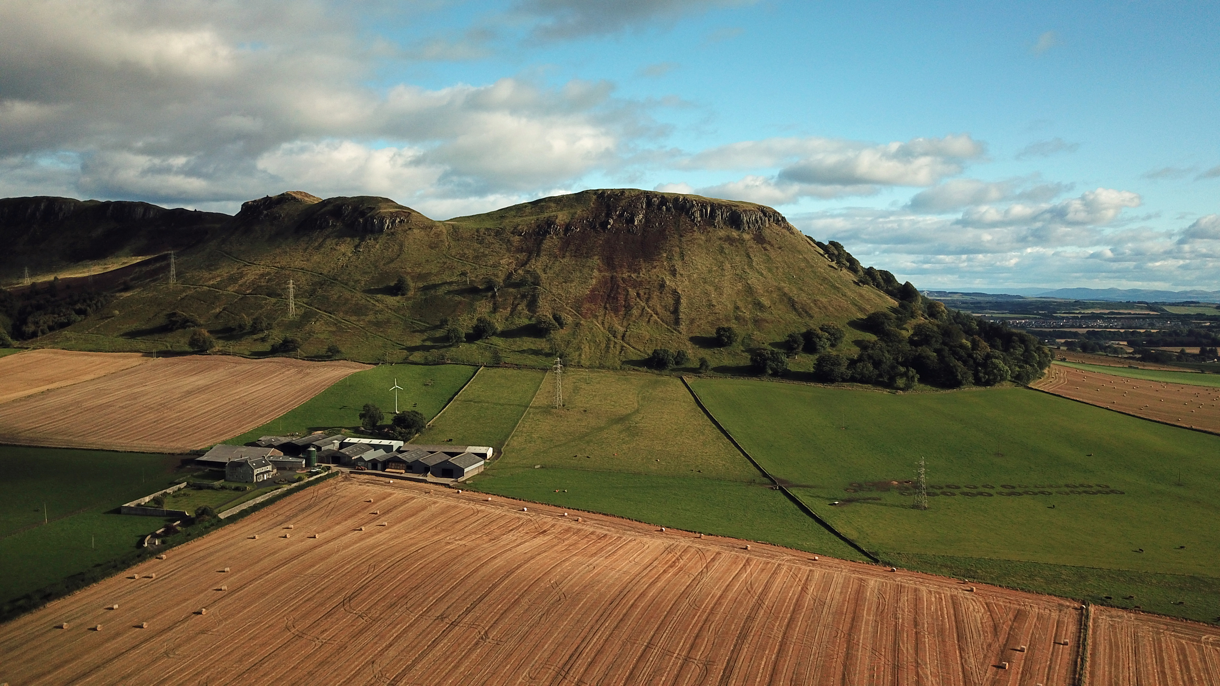 Benarty Hill near Ballingry